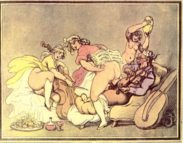 An old man reclines in an armchair playing a violin while a young woman straddles him, holding a music book open on her back. Nearby, another young woman plays a cello and another plays a tambourine.